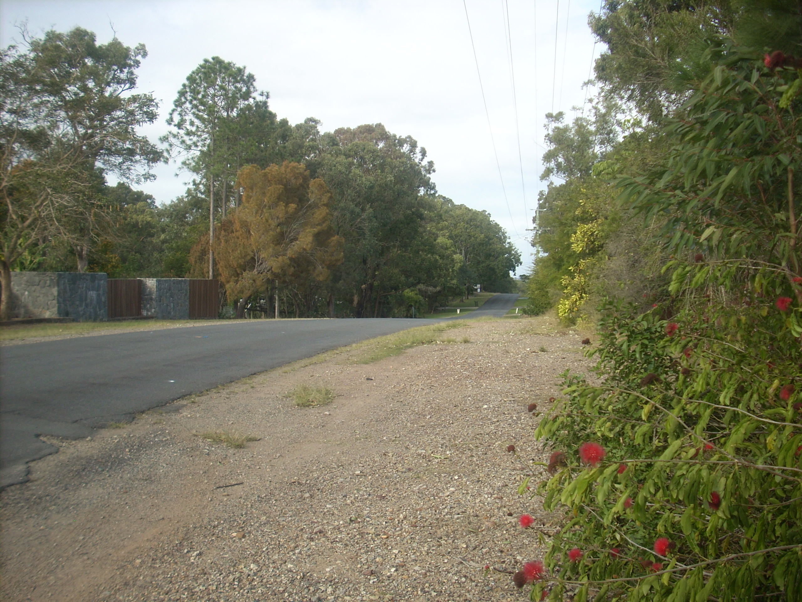 Warriewood St at Chandler, Brisbane City, Quensland, Australia, facing east.